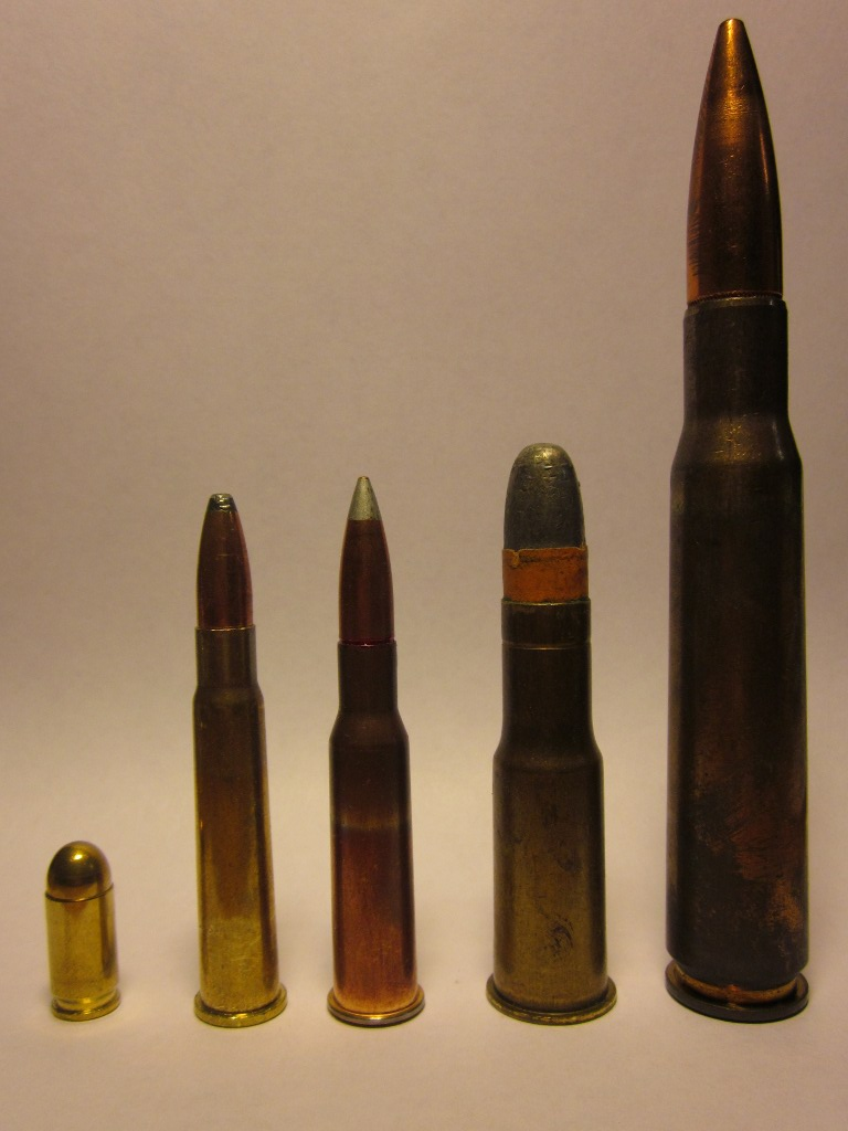 L to R: 9x18 Makarov, .303 British, 7.62x54R, .577/450 Boxer-Henry, .50 BMG